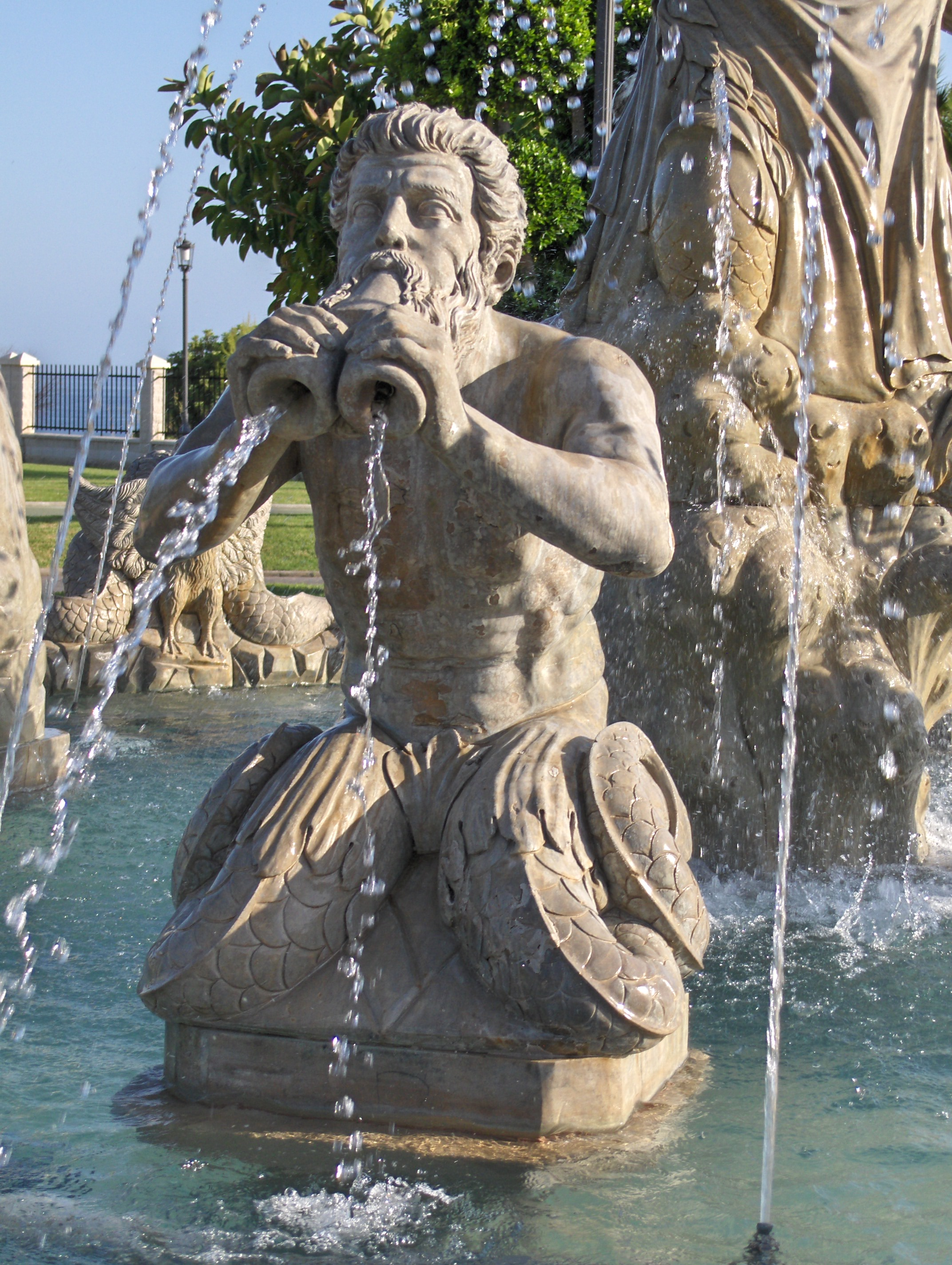 Sculpture in a fountain in Parque dde la Batería, Torremolinos, Spain.